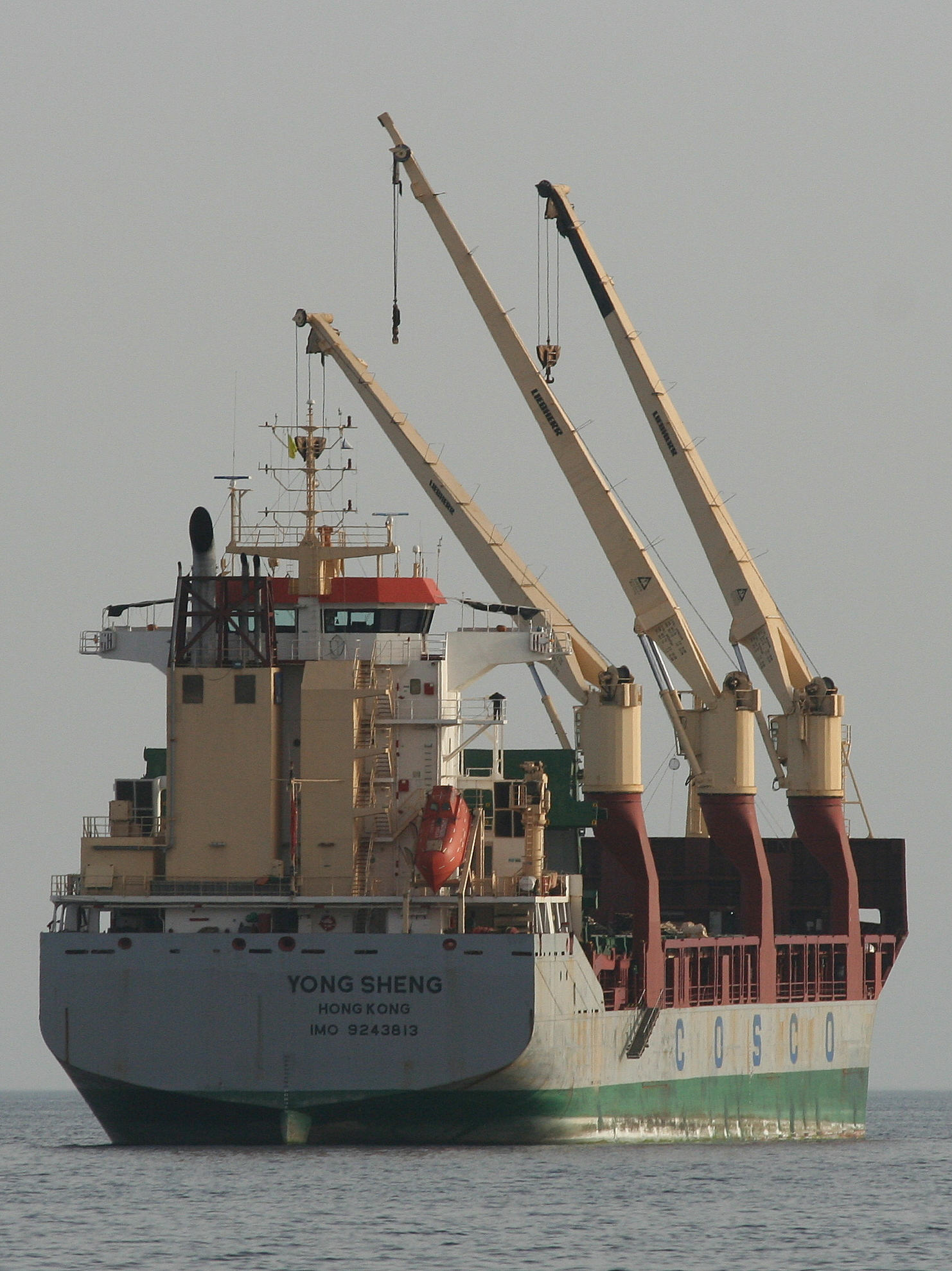 Yong Sheng in the Bay of Eilat